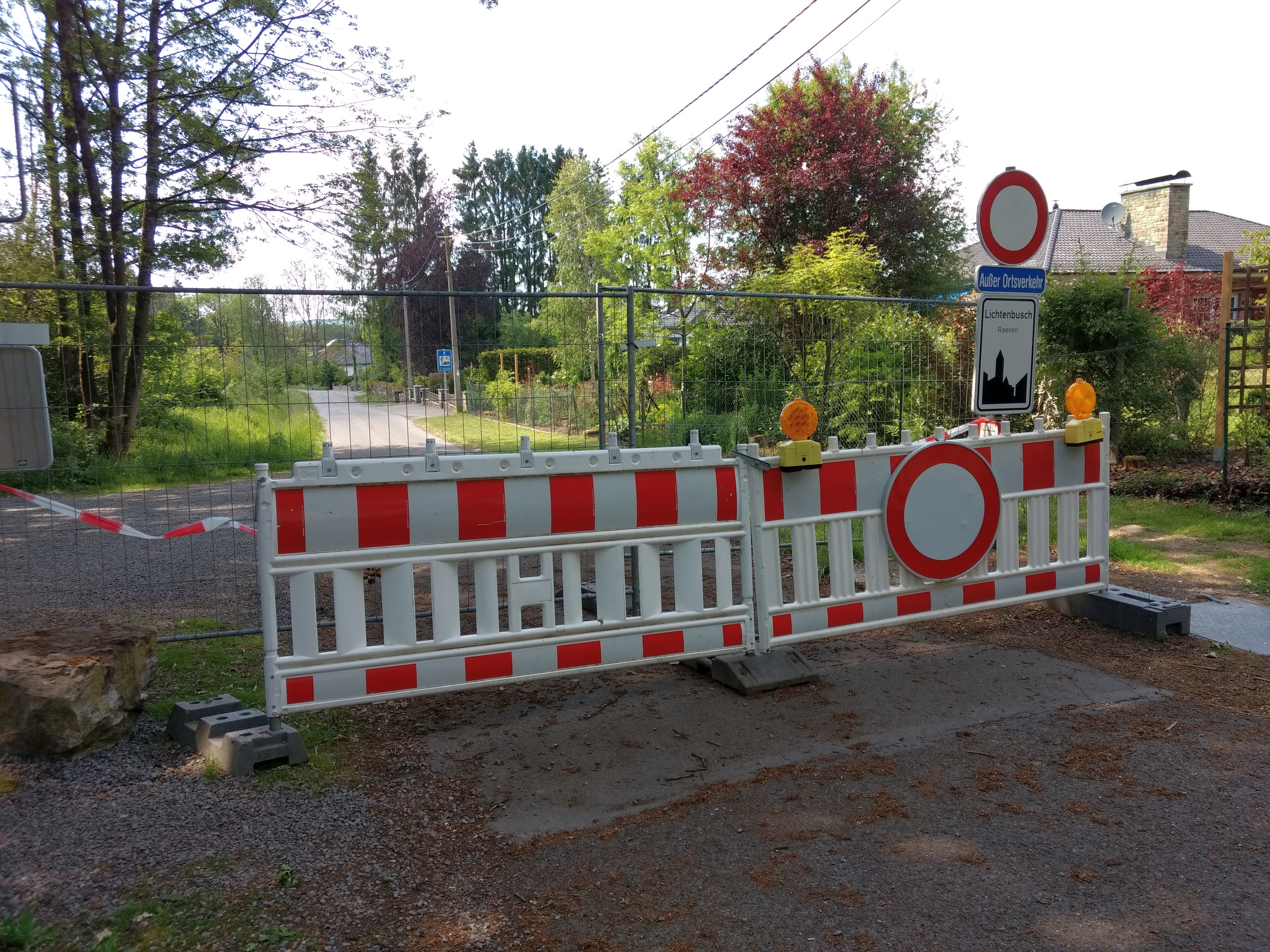 Roadblock to Belgian territory as part of the COVID19 pandemic border closures by the Kingdom of Belgium, as seen from the German territory, in Lichtenbusch, near Aachen